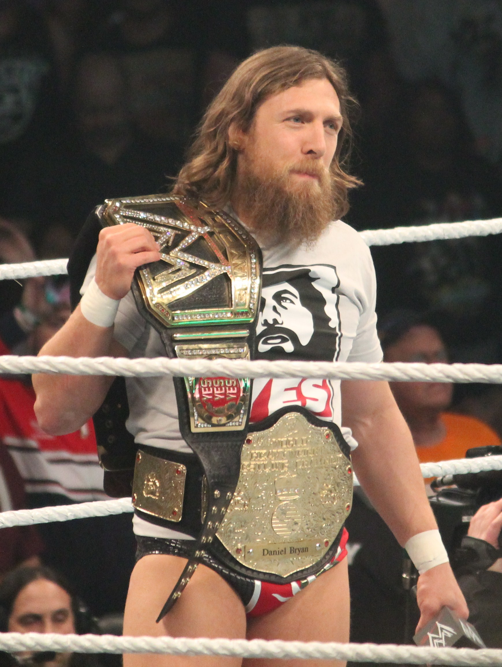 Daniel Bryan, the WWE World Heavyweight Champion at the post-WrestleMania Raw on 7 April 2014 in New Orleans, Louisiana.